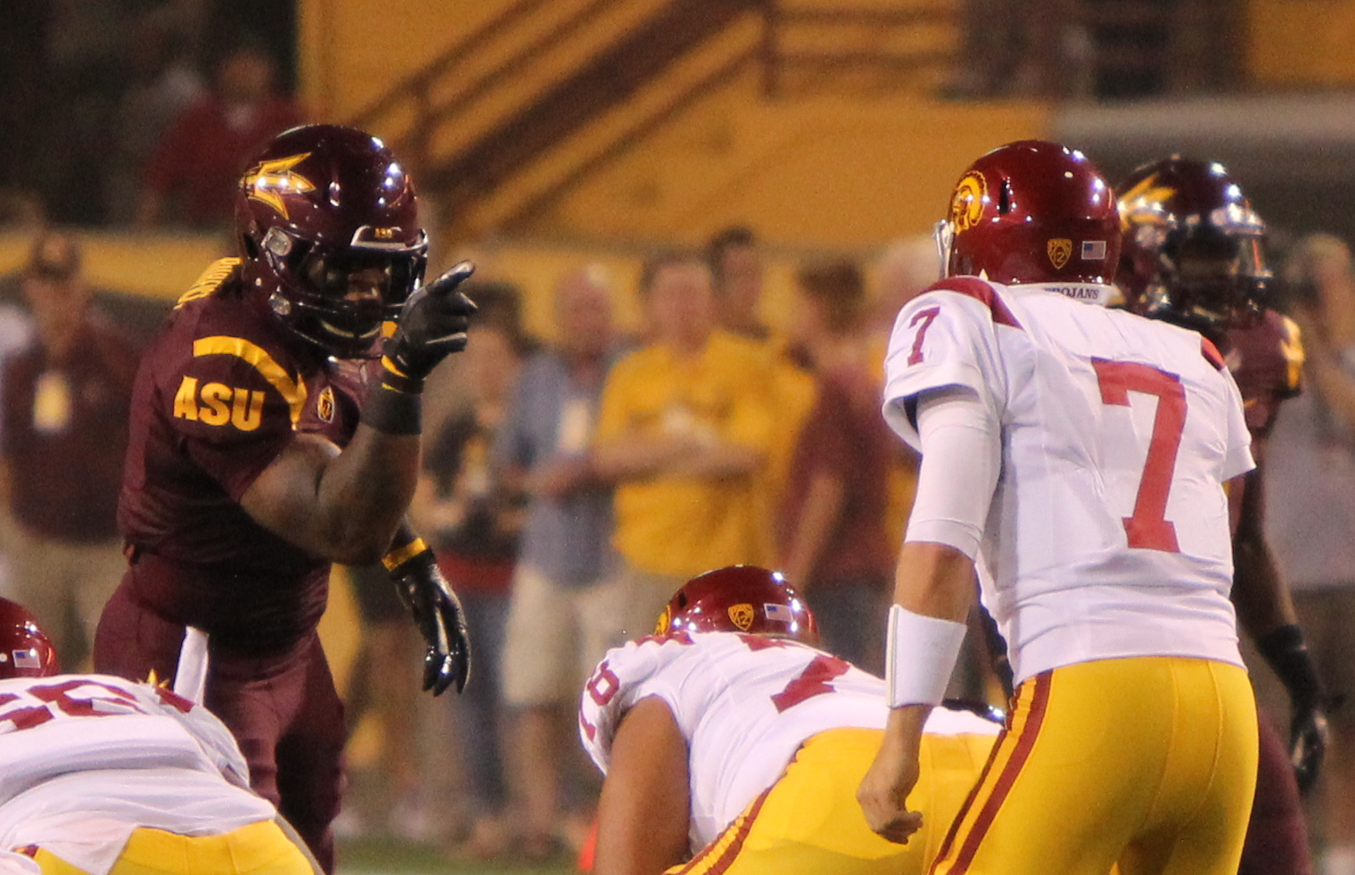 Linebacker Vontaze Burfict of Arizona State Sun Devils confronts quarterback Matt Barkley of Southern California Trojans. Taken by James Santelli, Neon Tommy. September 24, 2011.